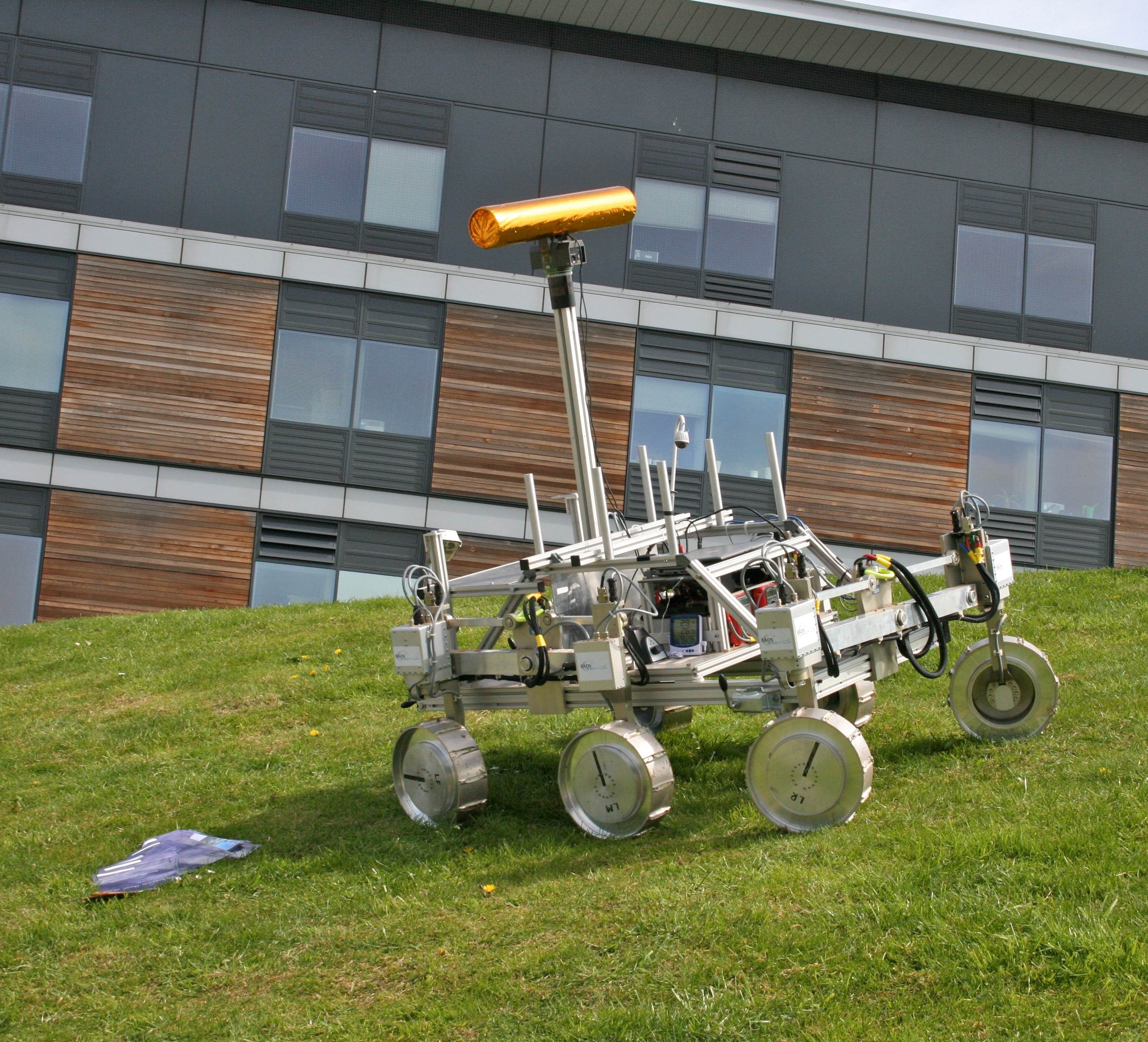 An ExoMars prototype rover at the Royal Astronomical Society National Annual Meeting 2009 in Hatfield, England.